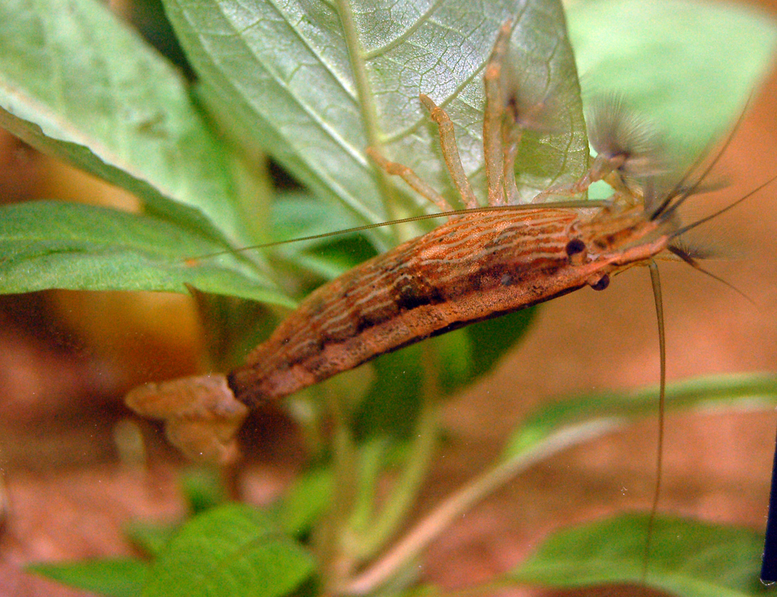 Atyopsis moluccensis, in my aquarium